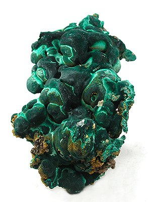 Malachite Locality: Rum Jungle, Northern Territory, Australia Size: cabinet, 10.5 x 6.5 x 3.2 cm Malachite Multi-colored botryoids highlight this extremely aesthetic specimen. Spheres, 2.5 cm across, exhibit light and dark green swirls. There is a satin luster which adds to the quality of the specimen. OLD, CLASSIC, NOW RARE MATERIAL